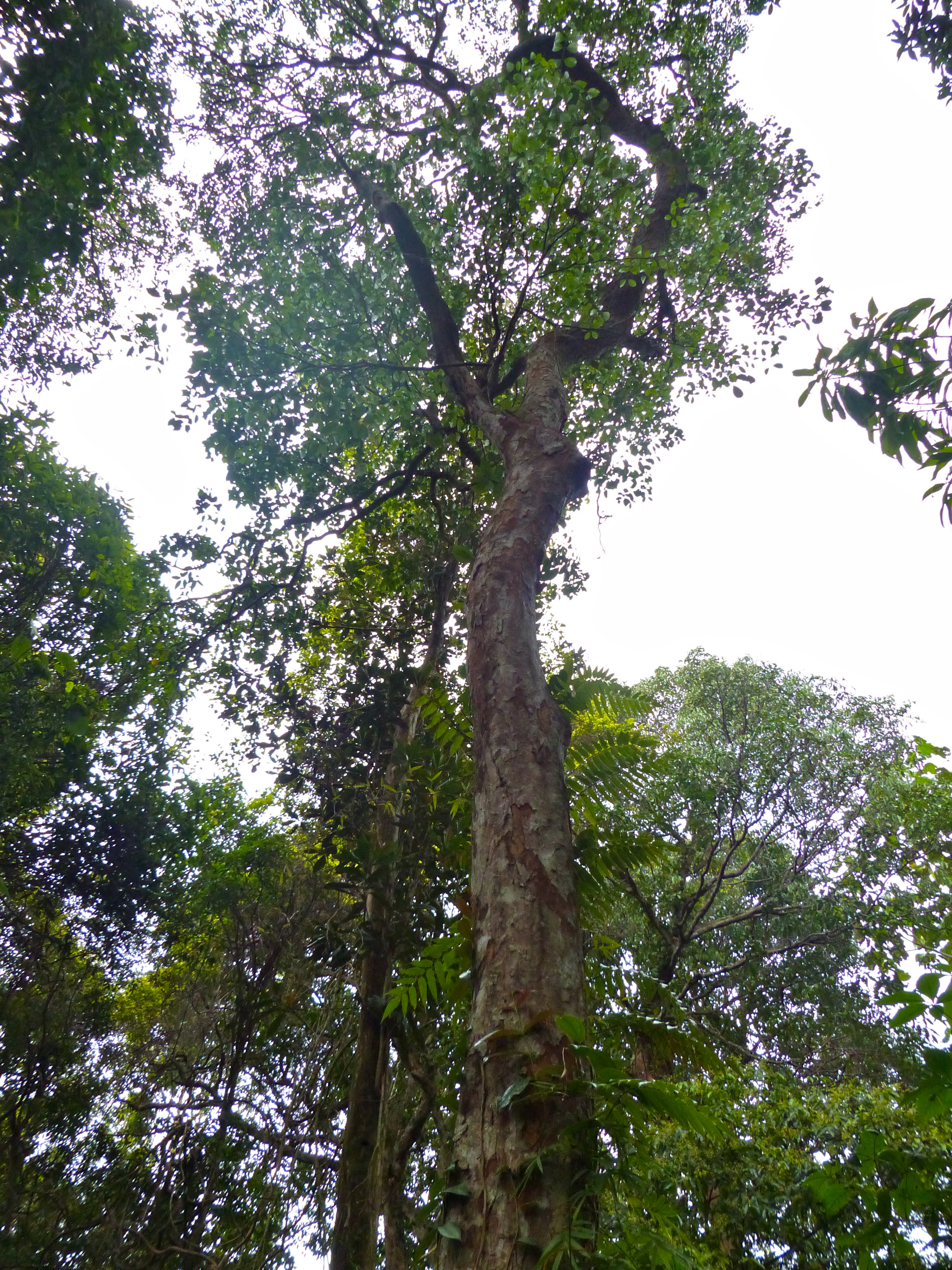 Permai Rainforest Resort, Santubong Peninsula North of Kuching, Sarawak, MALAYSIA